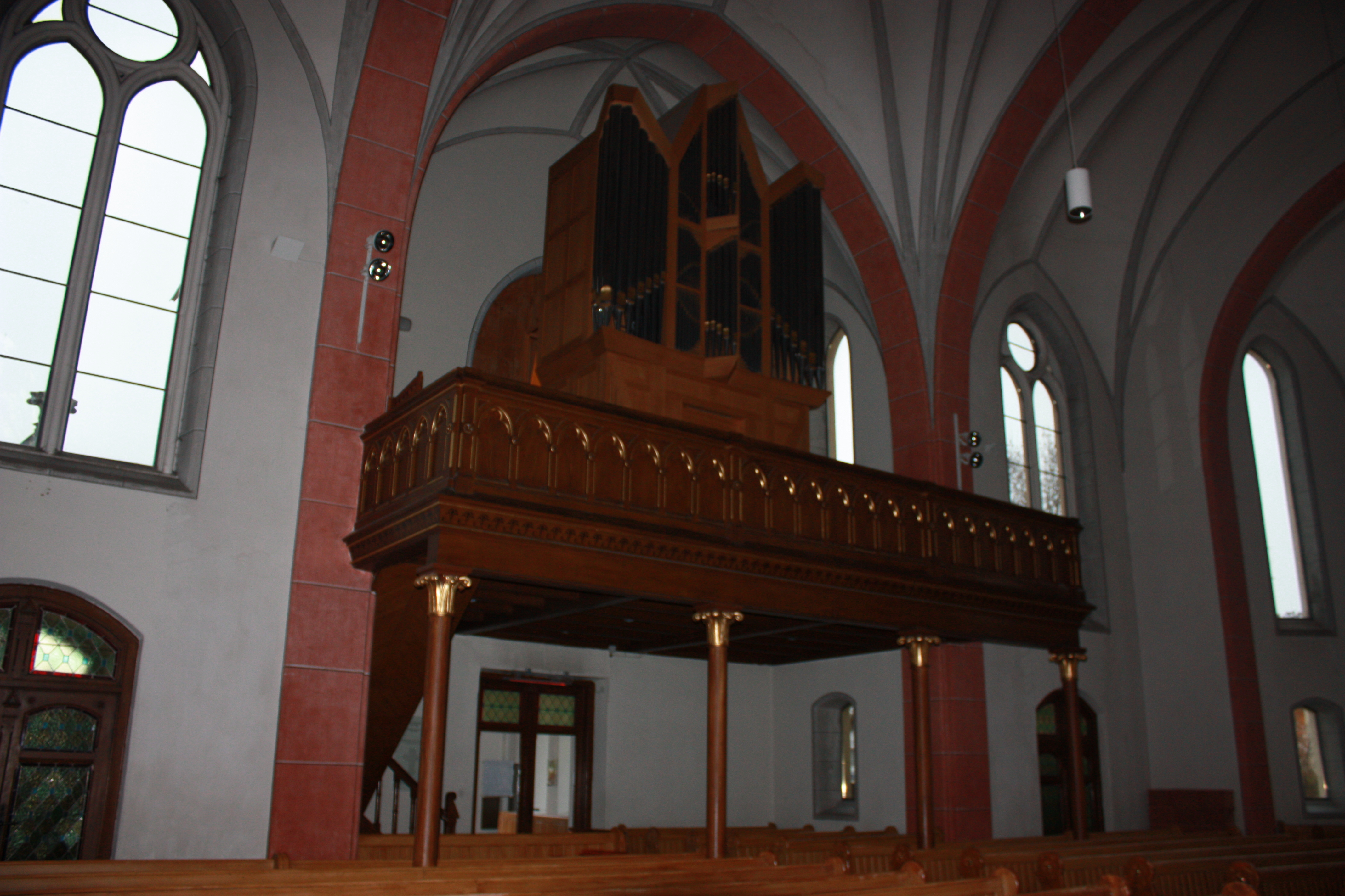 Lutherian church - view to the organ loft Locality: Stadtpark Community:Villach